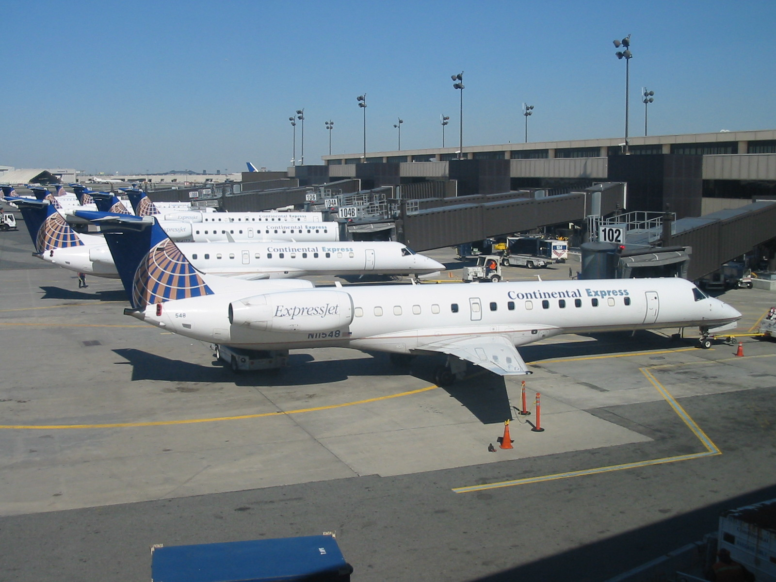 Original Work by SeanMD80, April 2005.